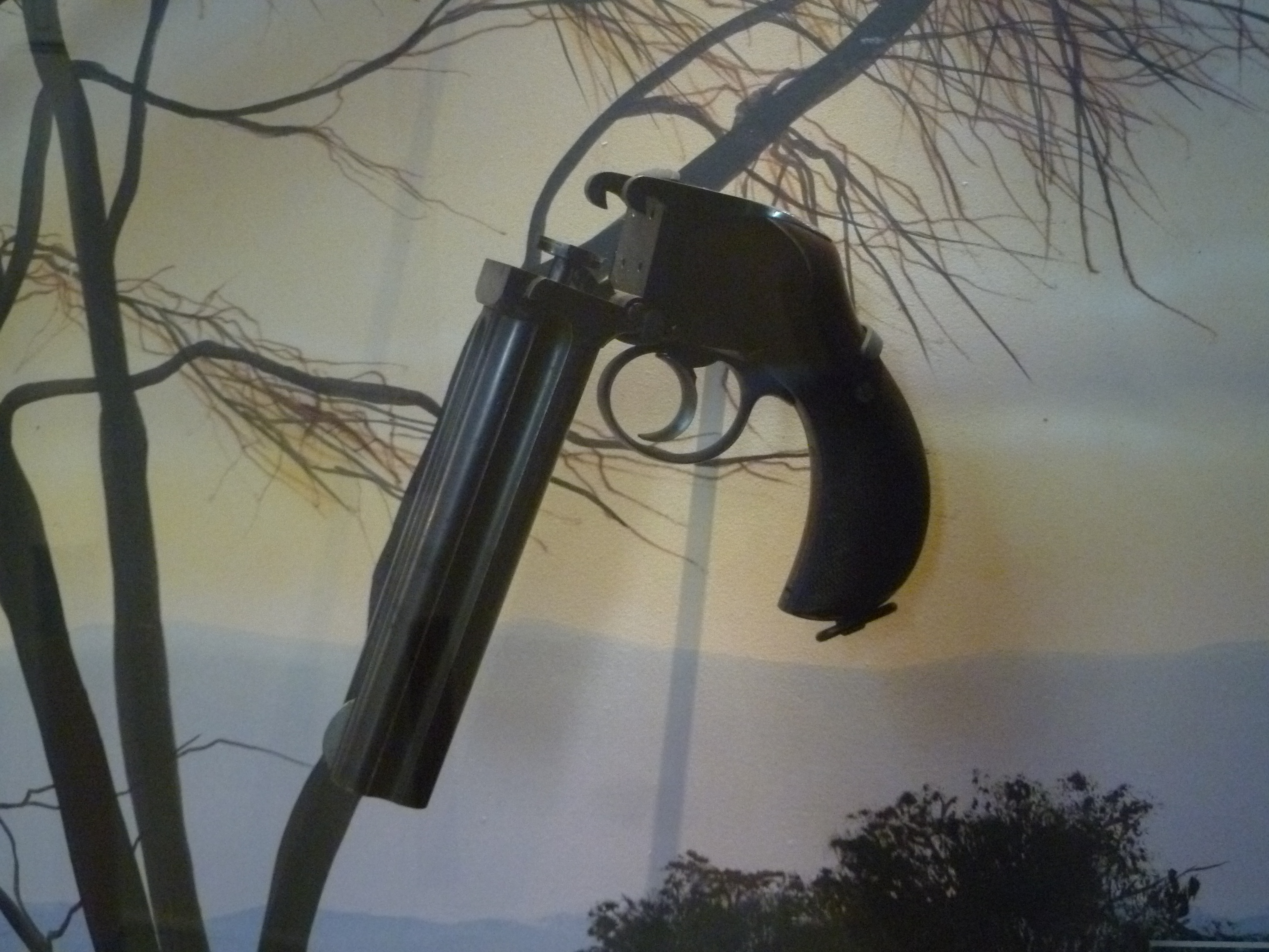 Break action pepperbox at Leeds royal armories museum